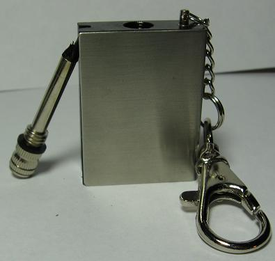 Permanent match, opened. Created by myself, sparkysko, released to public domain.